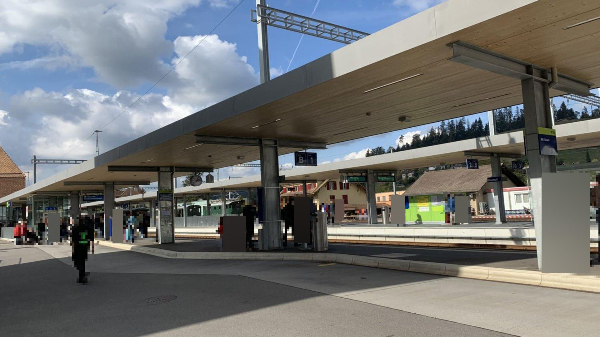 Huttwil railway station in Huttwil, Switzerland.